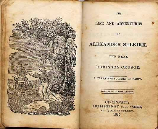 Title page of the book The Life and Adventures of Alexander Selkirk, the Real Robinson Crusoe (1835)